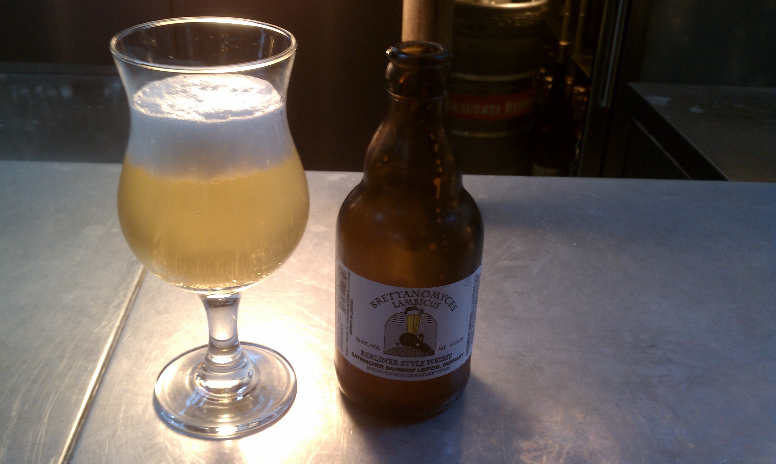 A Berliner Weisse beer served in San Francisco. The bottle advertises the lambic yeasts used to produce it: Brettanomyces lambicus.